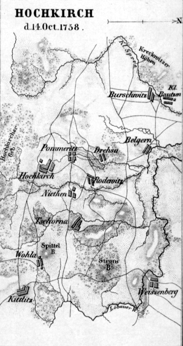 Image extracted from page 1079 of Deutsche National-Bibliothek. Volksthümliche Bilder und Erzählungen aus Deutschlands Vergangenheit und Gegenwart. Herausgegeben von F. Schmidt. Bd. 1-12', by SCHMIDT, Ferdinand - Jugendschriftsteller. Original held and digitised by the British Library. Copied from Flickr. Note: The colours, contrast and appearance of these illustrations are unlikely to be true to life. They are derived from scanned images that have been enhanced for machine interpretation and have been altered from their originals.